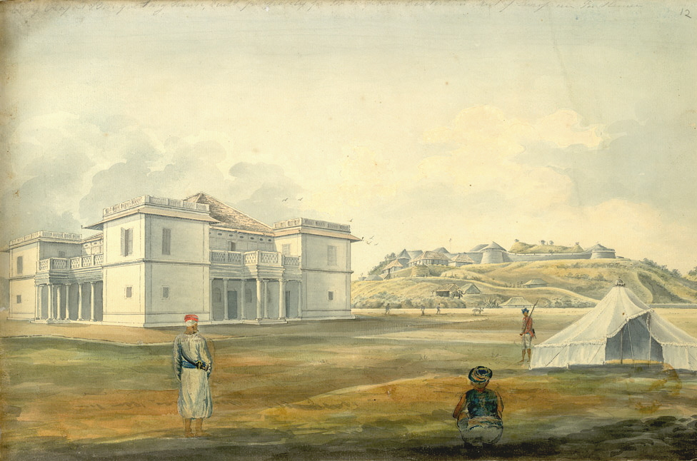 Watercolor guest house of the Raja of Coorg with fort in the background.